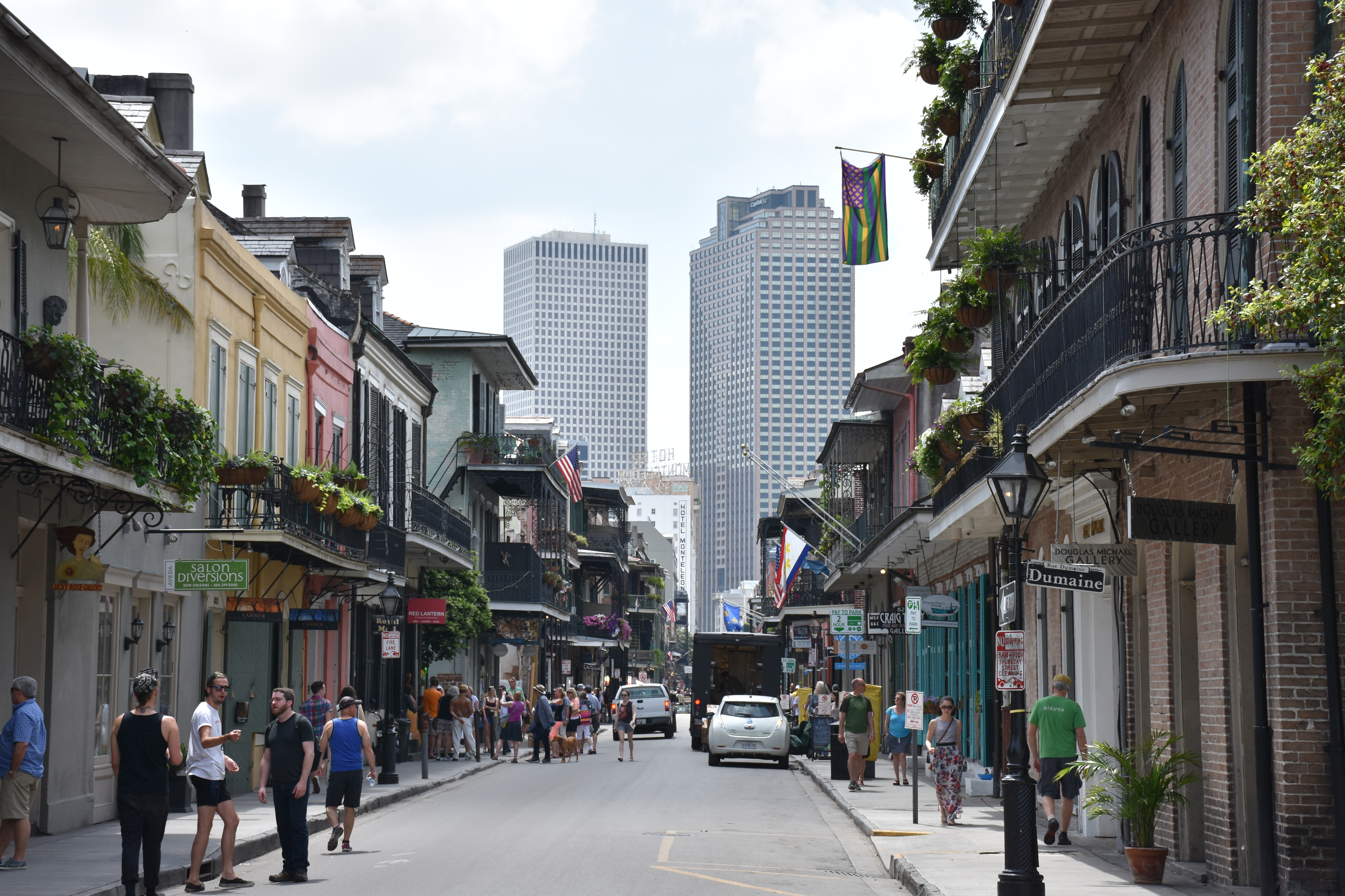 Looking southwest down Royal Street in New Orleans from Dumaine Street